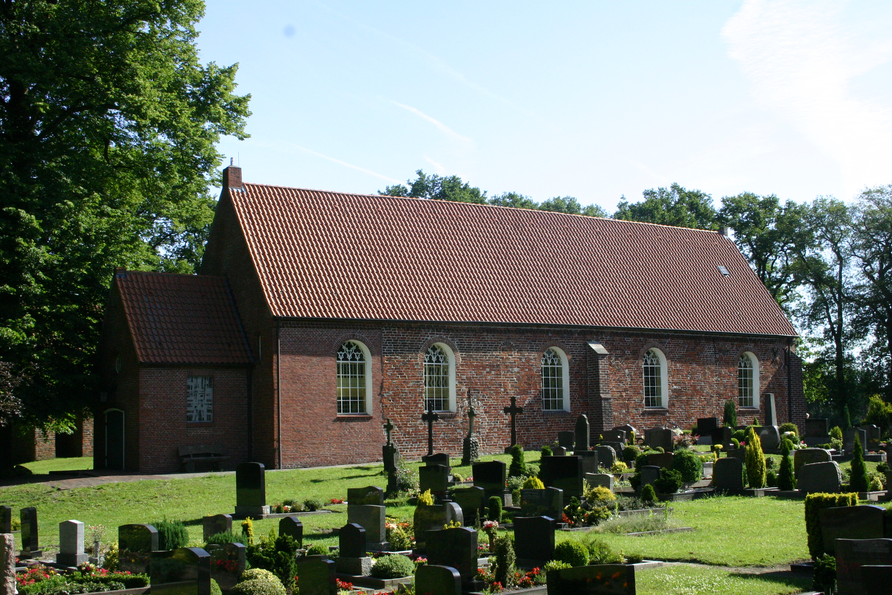 Historic Ss. Mary und Nicholas Church in Steenfelde, district of Leer, East Frisia, Germany '